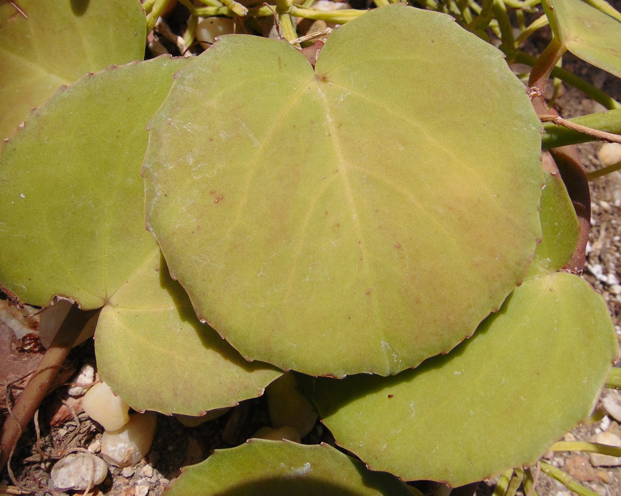 Cissus rotundifolia, Allan GardensPlease respect author's moral rights by not changing this description or the image title.